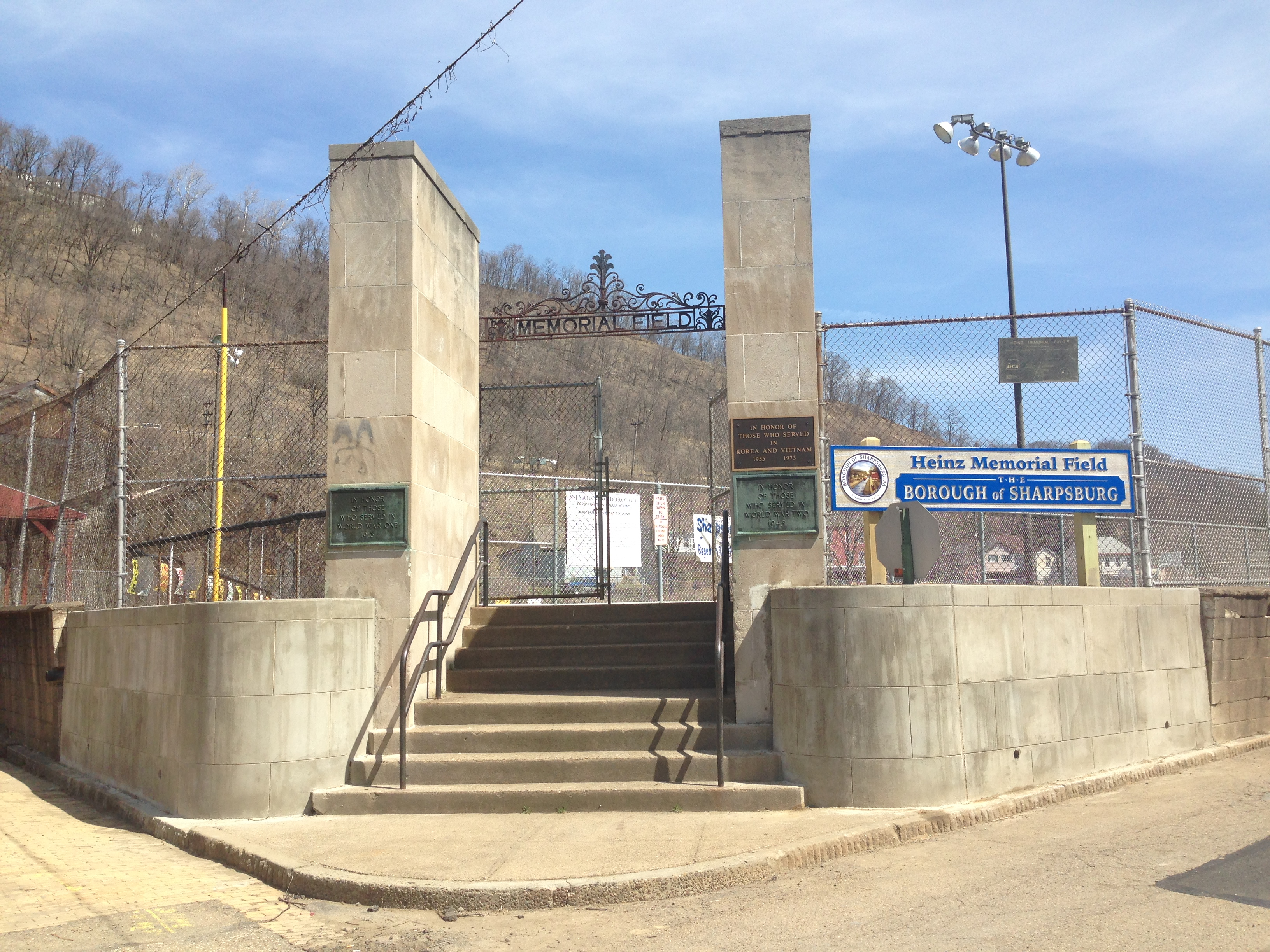 Heinz Memorial Field.